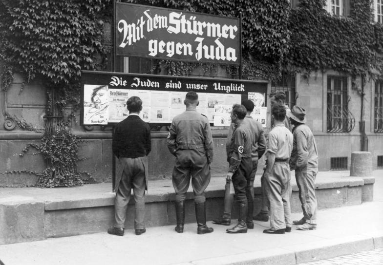 Information added by Wikimedia users.